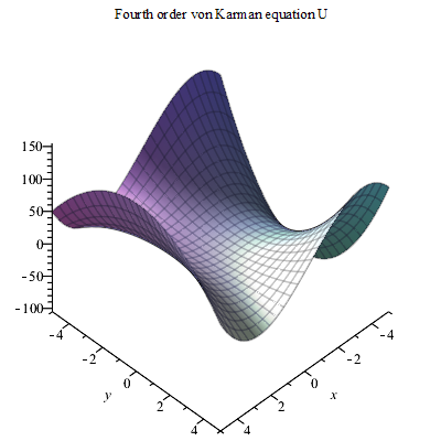 Von Karman equation U Maple plot